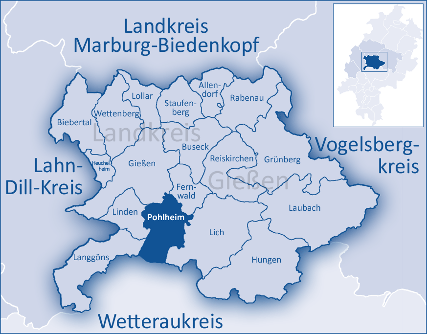 The map shows a district in the area of Gießen (district)